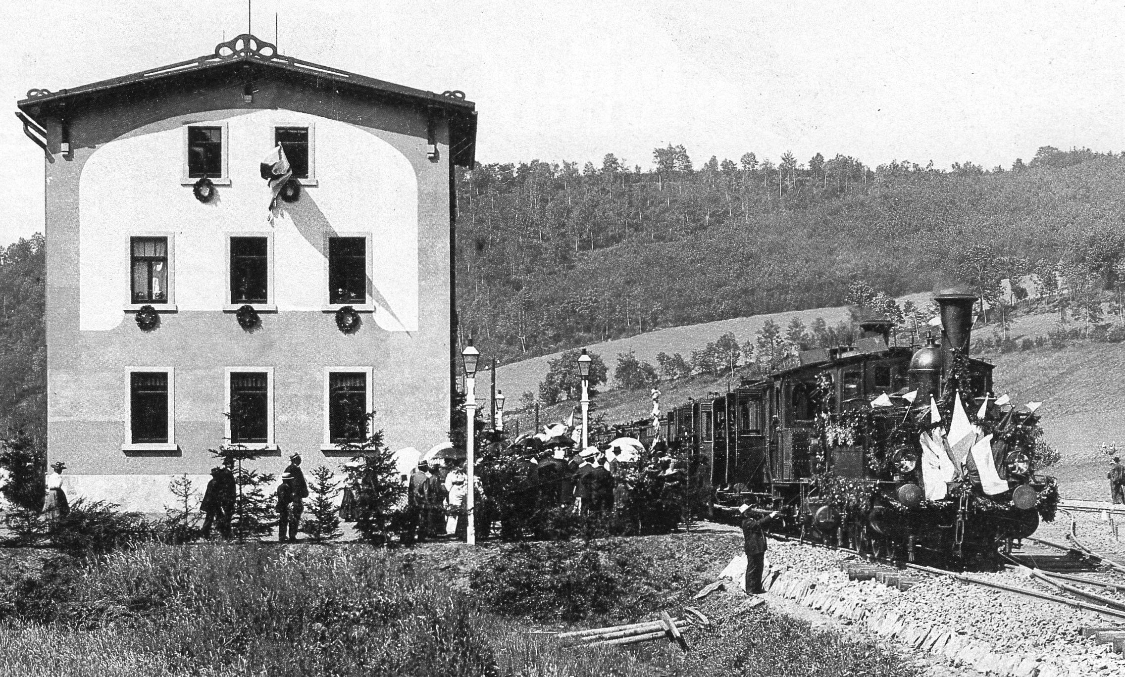 This image shows the first train of the railway line from Pirna to Gottleuba arriving the station in Gottleuba.